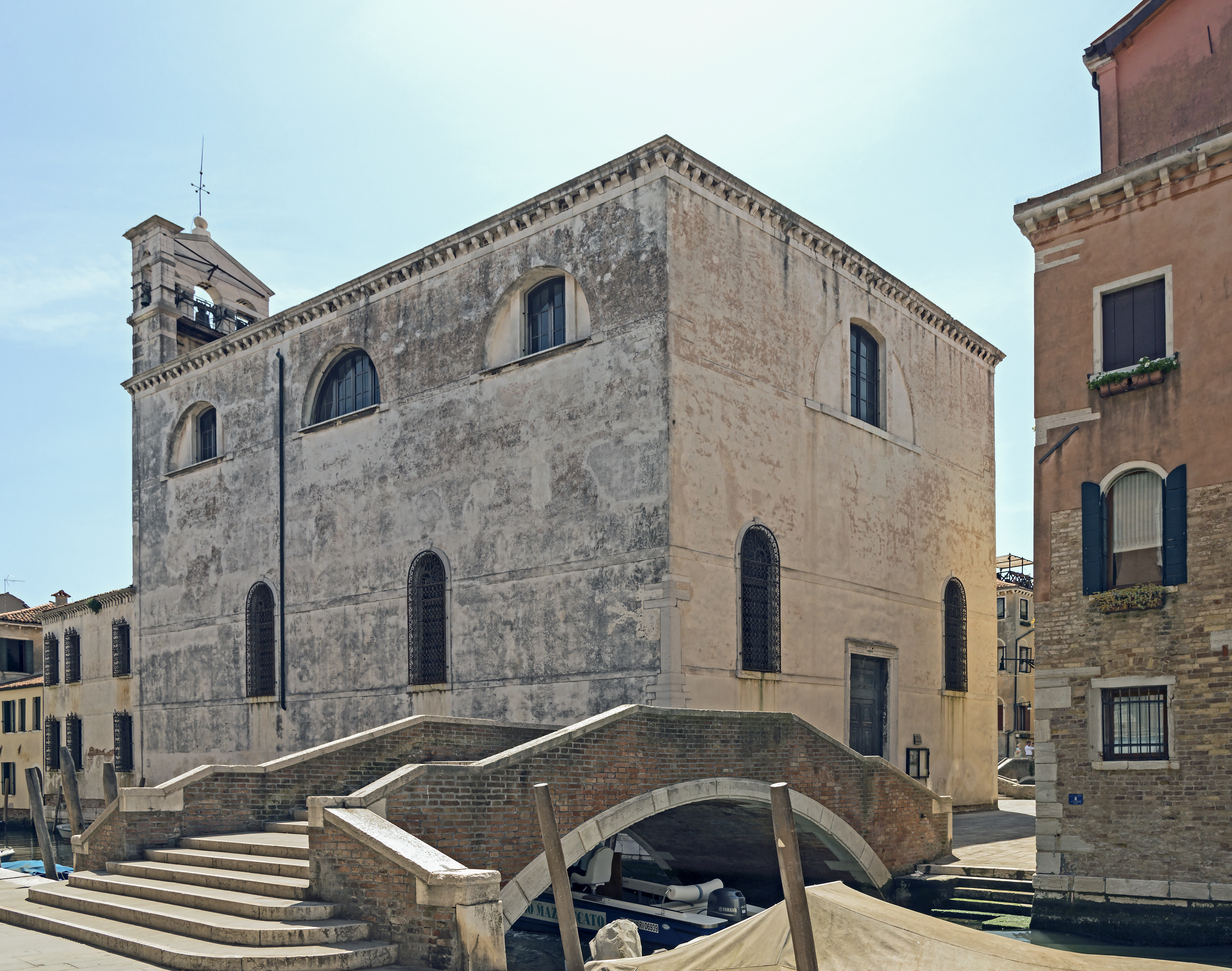 Church of San Marziale in Venice. Facade and Bell gable.